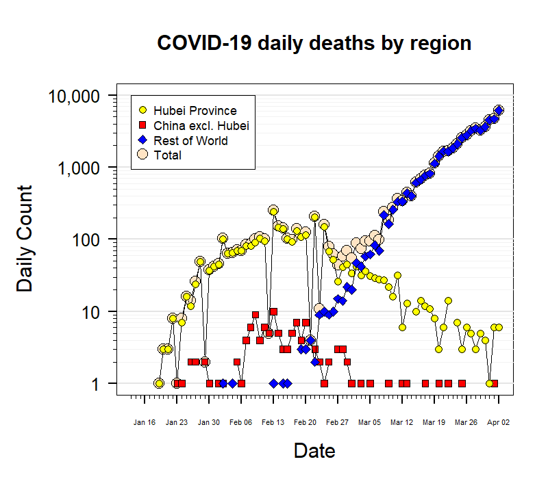 Semi-log plot of coronavirus daily deaths by region comparing Hubei, rest of China, rest of world and world total